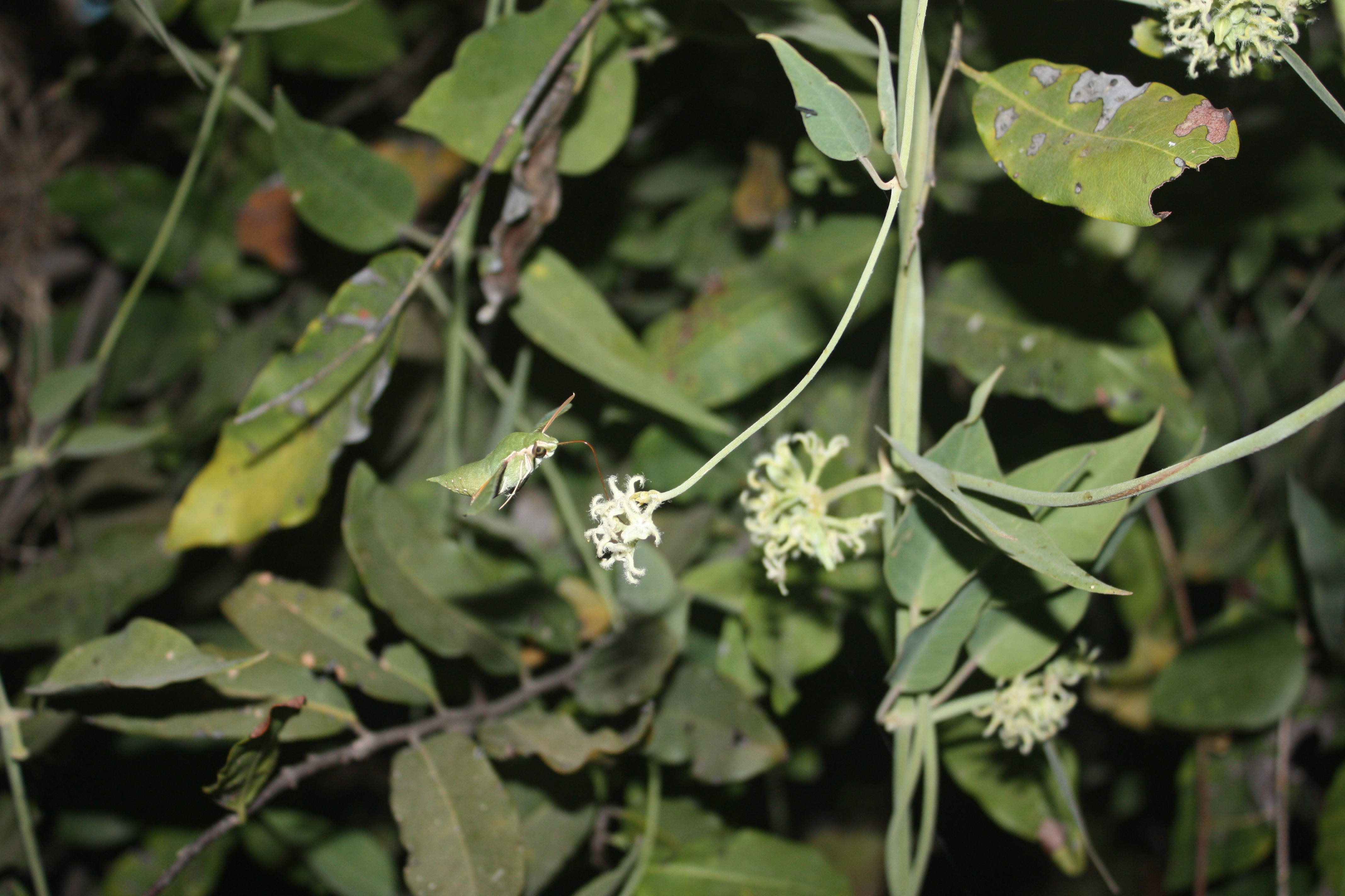 Leptadenia hastata flowers visited by green hawkmoth, Ranch de Nazinga, southern Burkina Faso